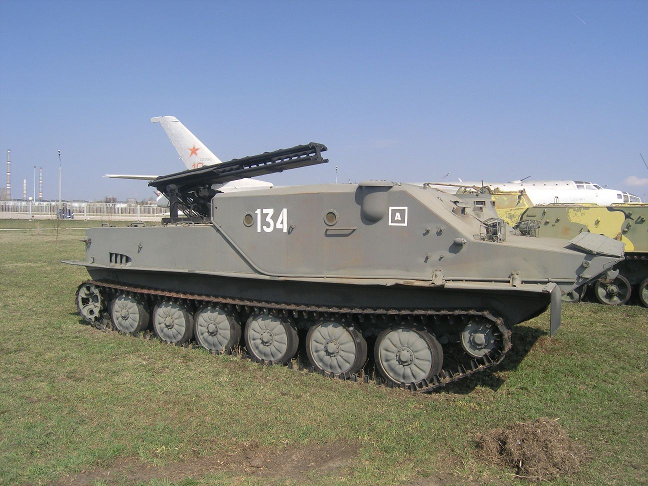 Probably UR-67 in Togliatti Technical museum